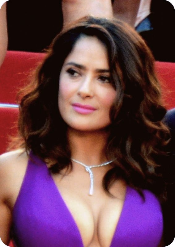 Salma Hayek at the Cannes film festival